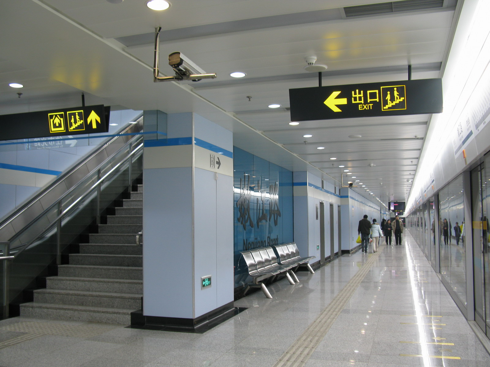 嫩江路站 8号线月台 Line 8 Platform of Nenjiang Road Station